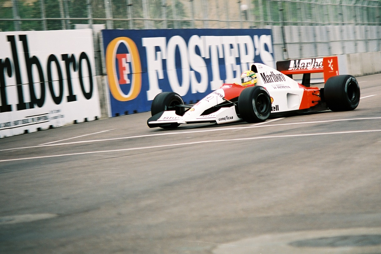 Ayrton Senna driving for McLaren at the 1991 United States Grand Prix.